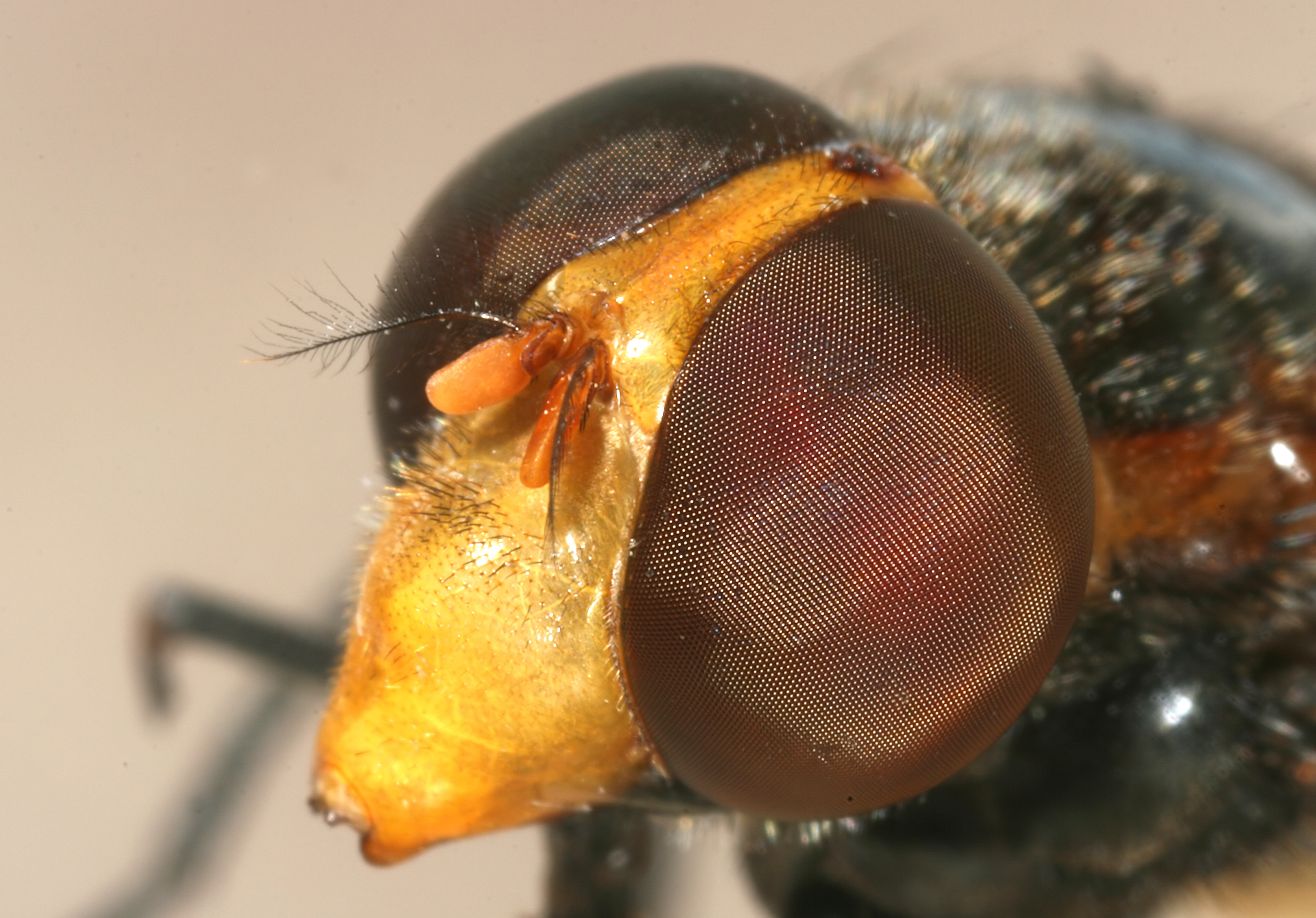 Description: Volucella pellucens is a hover-fly. It occurs in much of Europe, and across Asia to Japan.